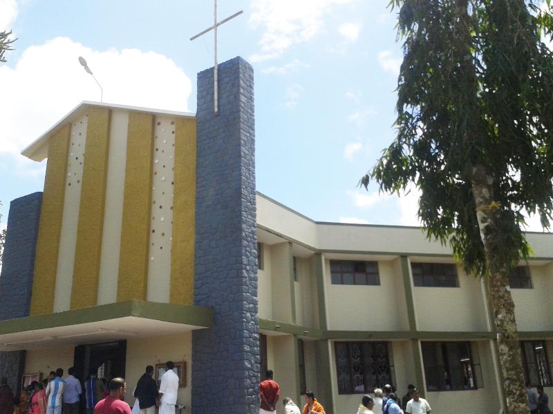 Church building.